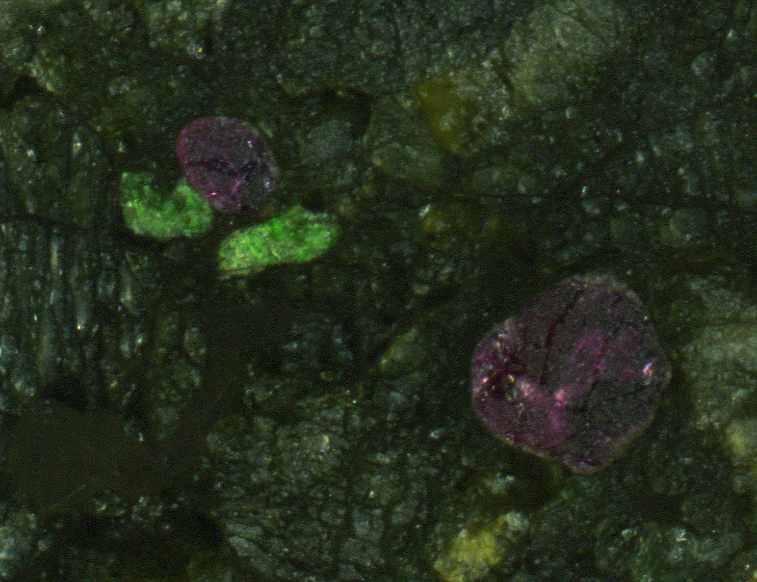 Garnet lherzolite (field of view ~1.6 cm across). Purplish red = pyrope garnet Bright green = chromian diopside pyroxene Dark green crystals = olivine & orthopyroxene One of the most incredibly rare rocks in my collection is this garnet lherzolite from South Africa. This is a slice of a xenolith nodule (“xeno” = foreign, and “lith” = rock) from a kimberlite pipe in Kimberley, central South Africa. As magma rises in a pipe during kimberlite formation, it plucks rock from the deep walls of the pipe. Many kimberlite xenoliths turn out to be samples from the deep crust, lithospheric mantle, and even possibly sub-lithospheric mantle. This garnet lherzolite xenolith is such a sample of lithospheric or sub-lithospheric mantle! Rocks such as garnet lherzolite and spinel lherzolite have traditionally been inferred to be primitive mantle materials. This rock is a variety of peridotite, an ultramafic intrusive igneous rock. It is dominated by two dark-greenish minerals: forsterite olivine (having veinlets of serpentine) and enstatite orthopyroxene. Notice that the rock also contains rounded, purplish-red crystals. These are pyrope garnets. There are also widely scattered, bright emerald green colored crystals of chromian diopside pyroxene. Small amounts of accessory minerals are also present. Age: Precambrian, very likely Archean (probably late Mesoarchean or early Neoarchean).